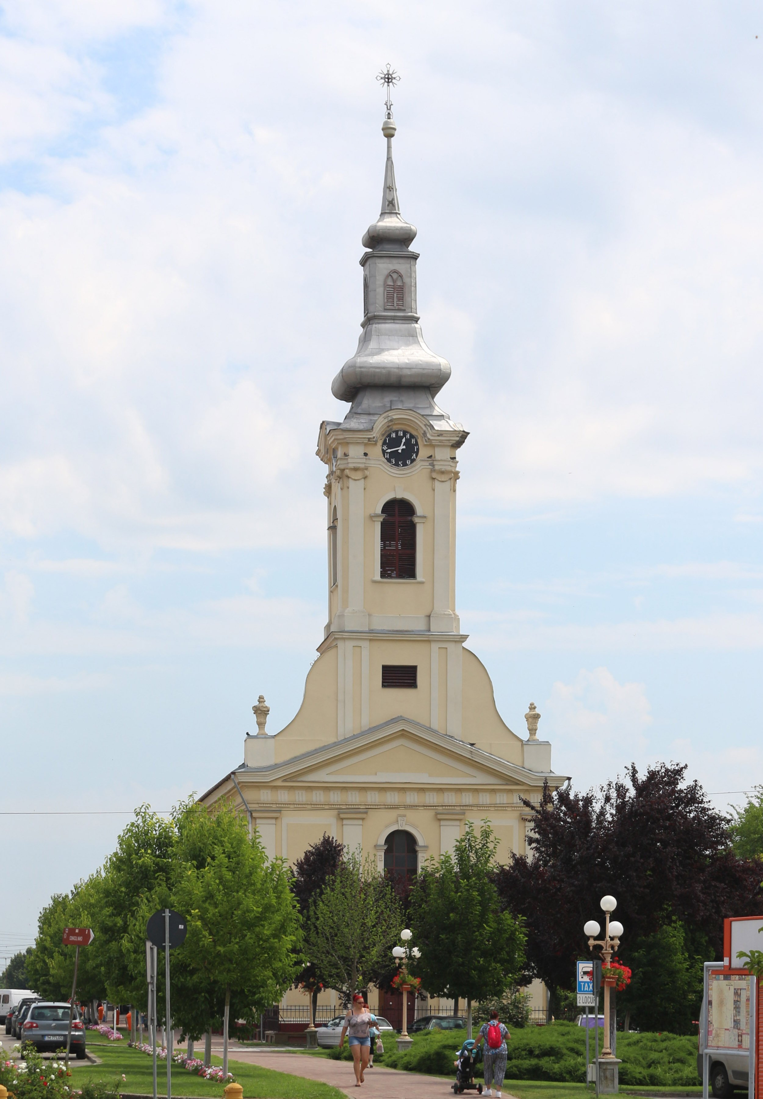 Serbian orthodox church, Sânnicolau Mare, Romania, built 1787